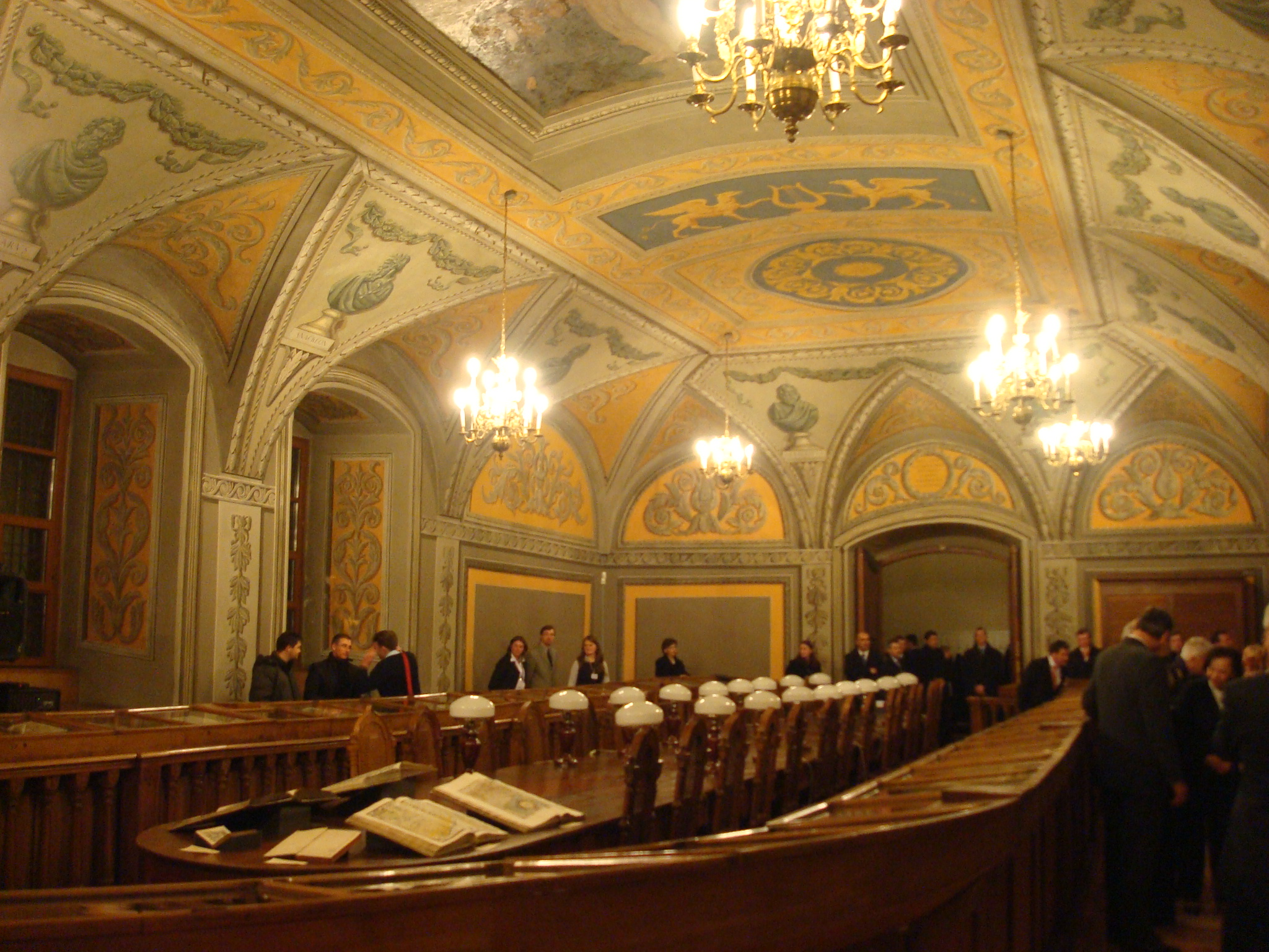 The Hall of Pranciškus Smuglevičius is the oldest part of the original library complex, named after painter Franciszek Smuglewicz